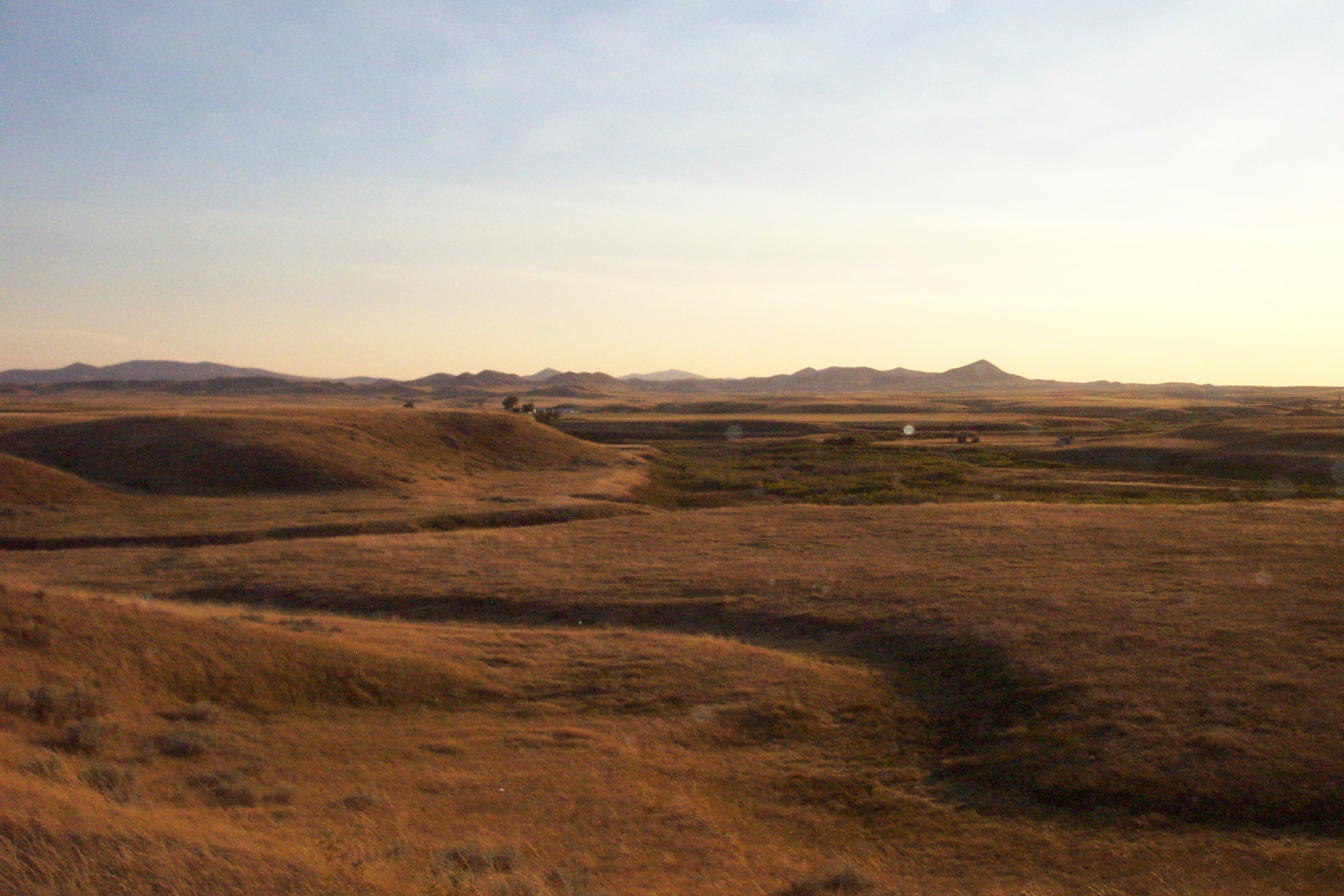 Bear Paw Battlefield in Montana, USA, where the U.S. Army attacked and besieged the Nez Perce encampment at Bear Paw, eventually prevailing on September 30, 1877.